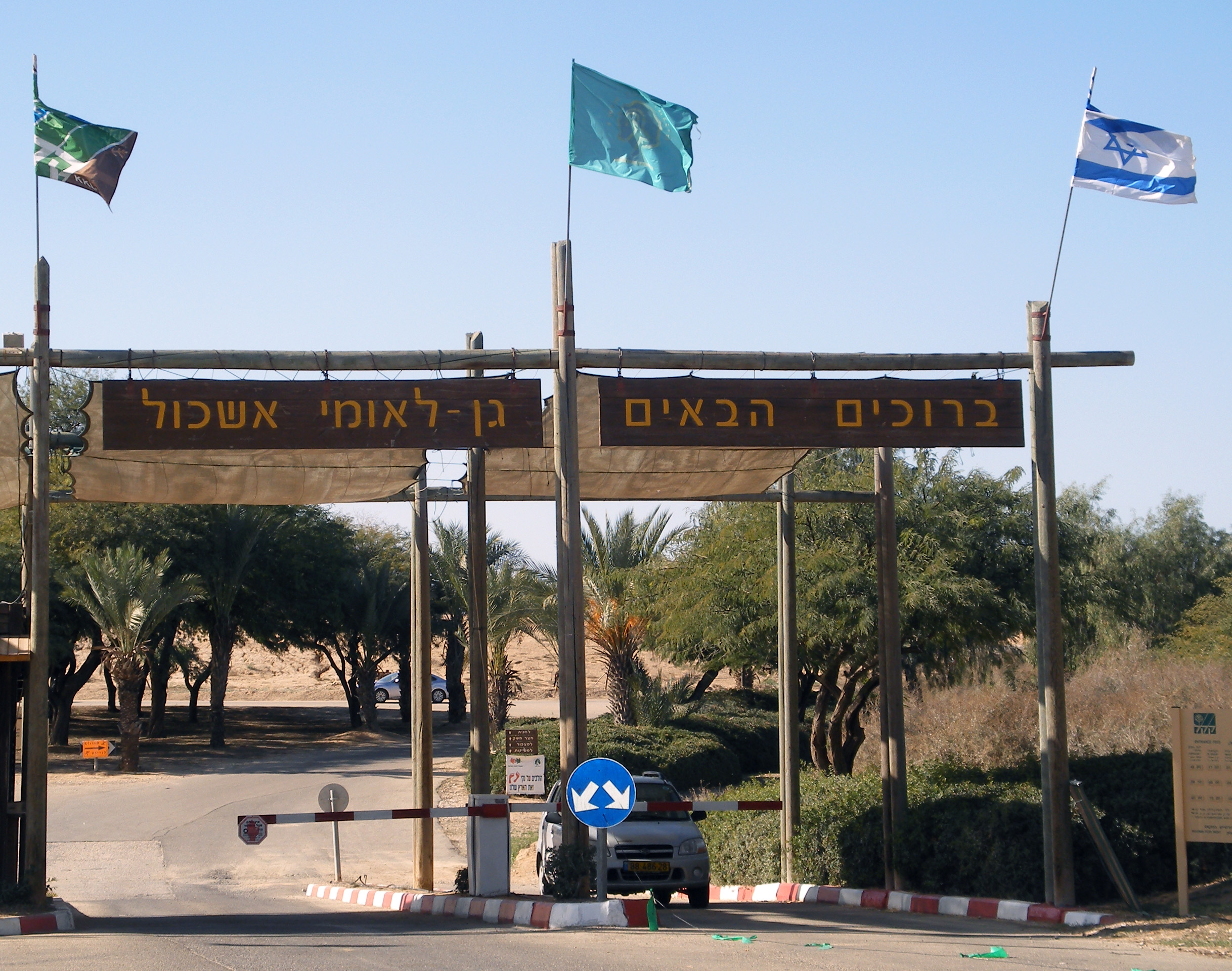 Eshkol Park after Levi Eshkol